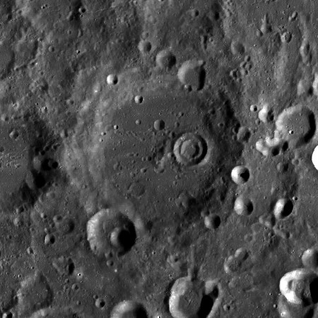 LROC image of the Bell crater. The 15-km concentric crater to the right of center is Bell E. 23-km Bell Q straddles the rim on the southwest, and identically-sized Bell L is partially visible in the middle of the lower margin.